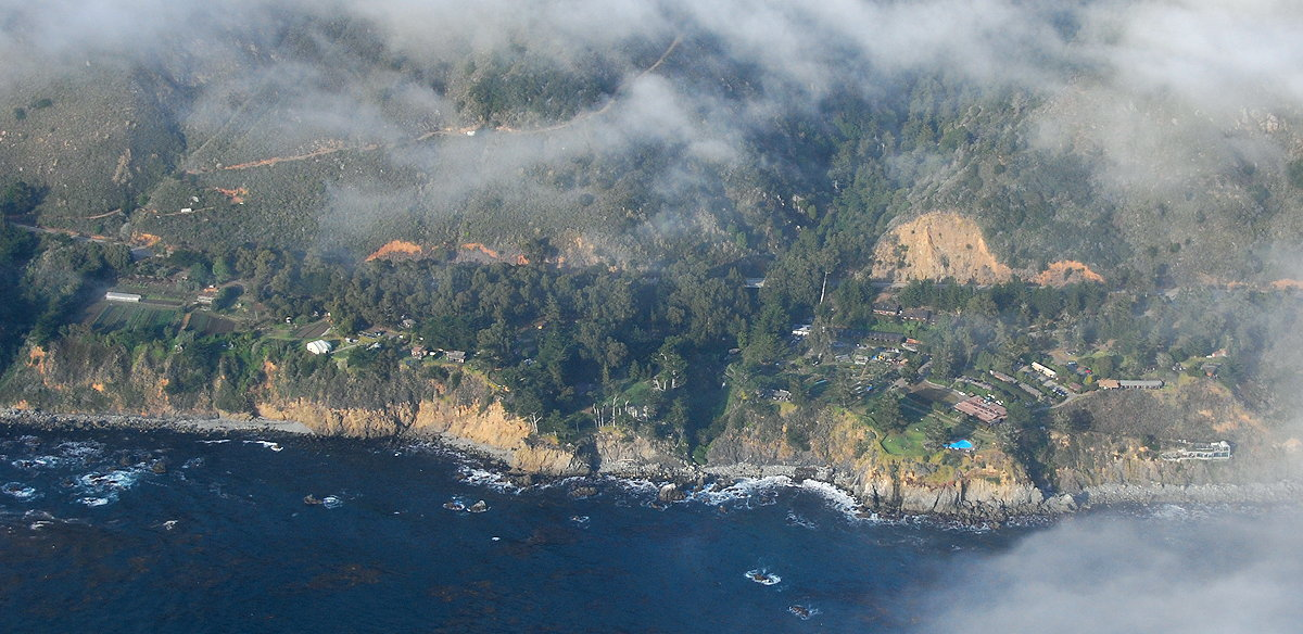 Evening aerial view of Esalen Institute - File: DSC_7224-w.jpg.